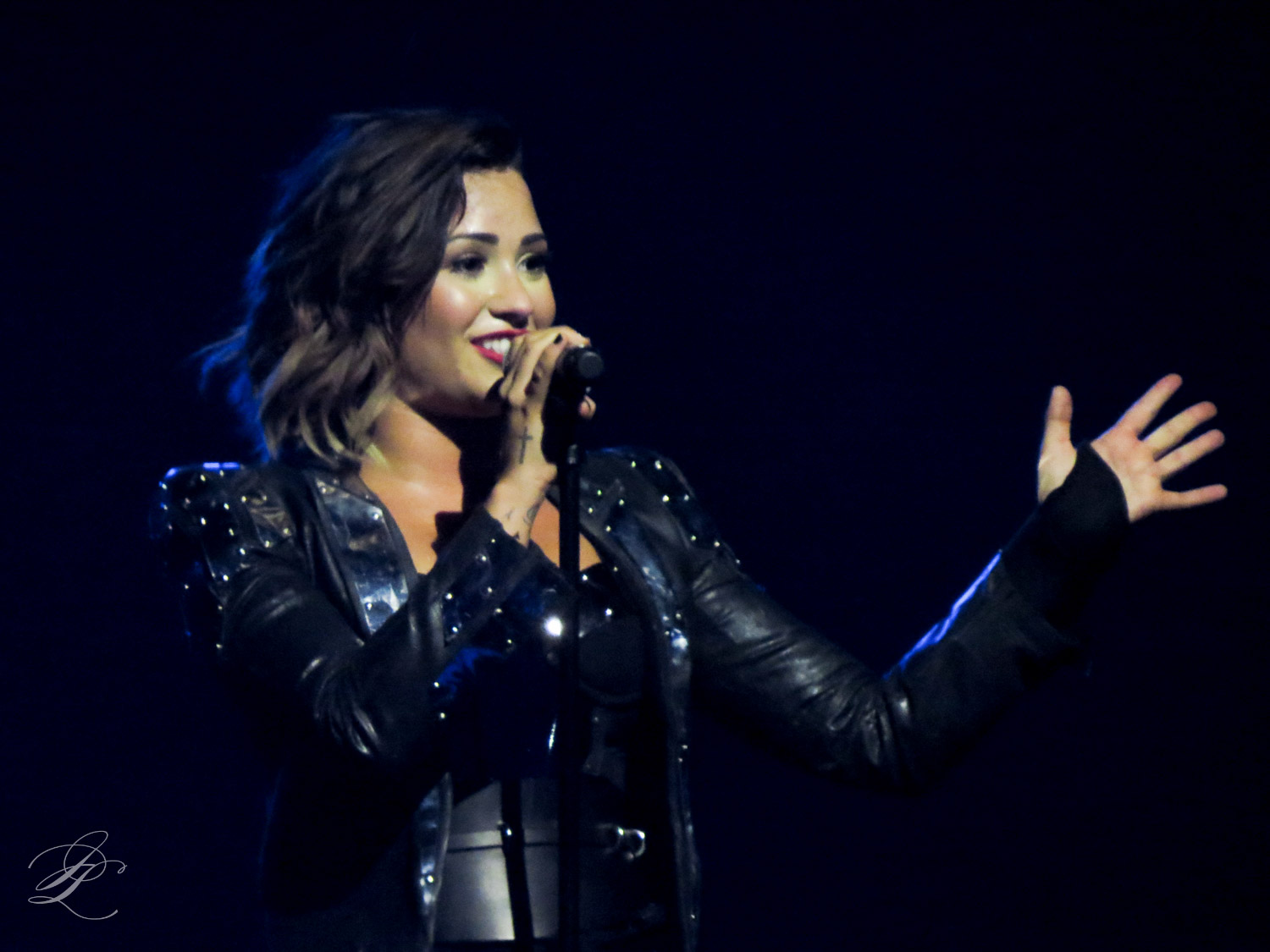 Demi Lovato performs at the Pepsi Center in Denver, CO on September 25, 2014.